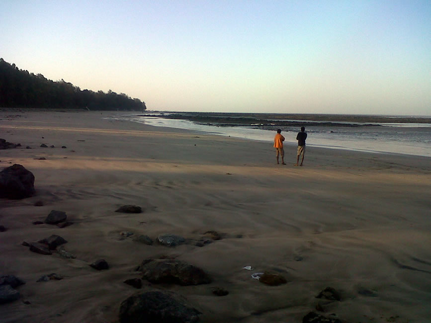 Picture of Manori beach in morning